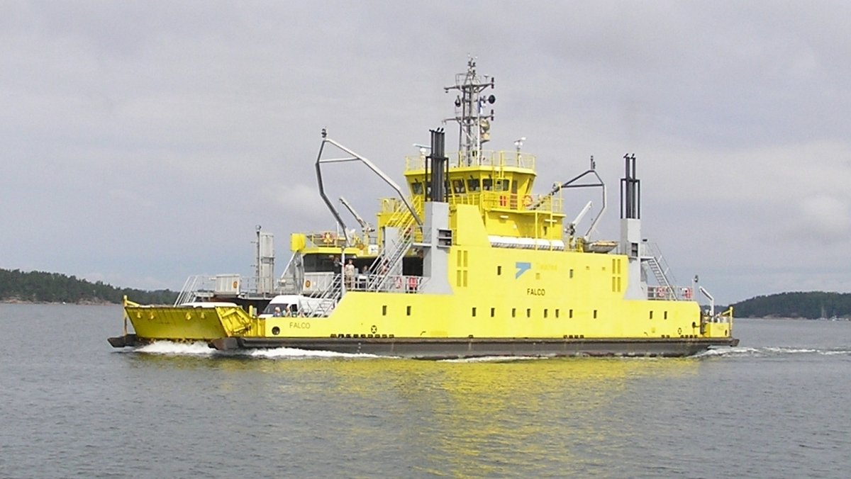 Finnish road ferry Falco on route between Pargas and Nagu.